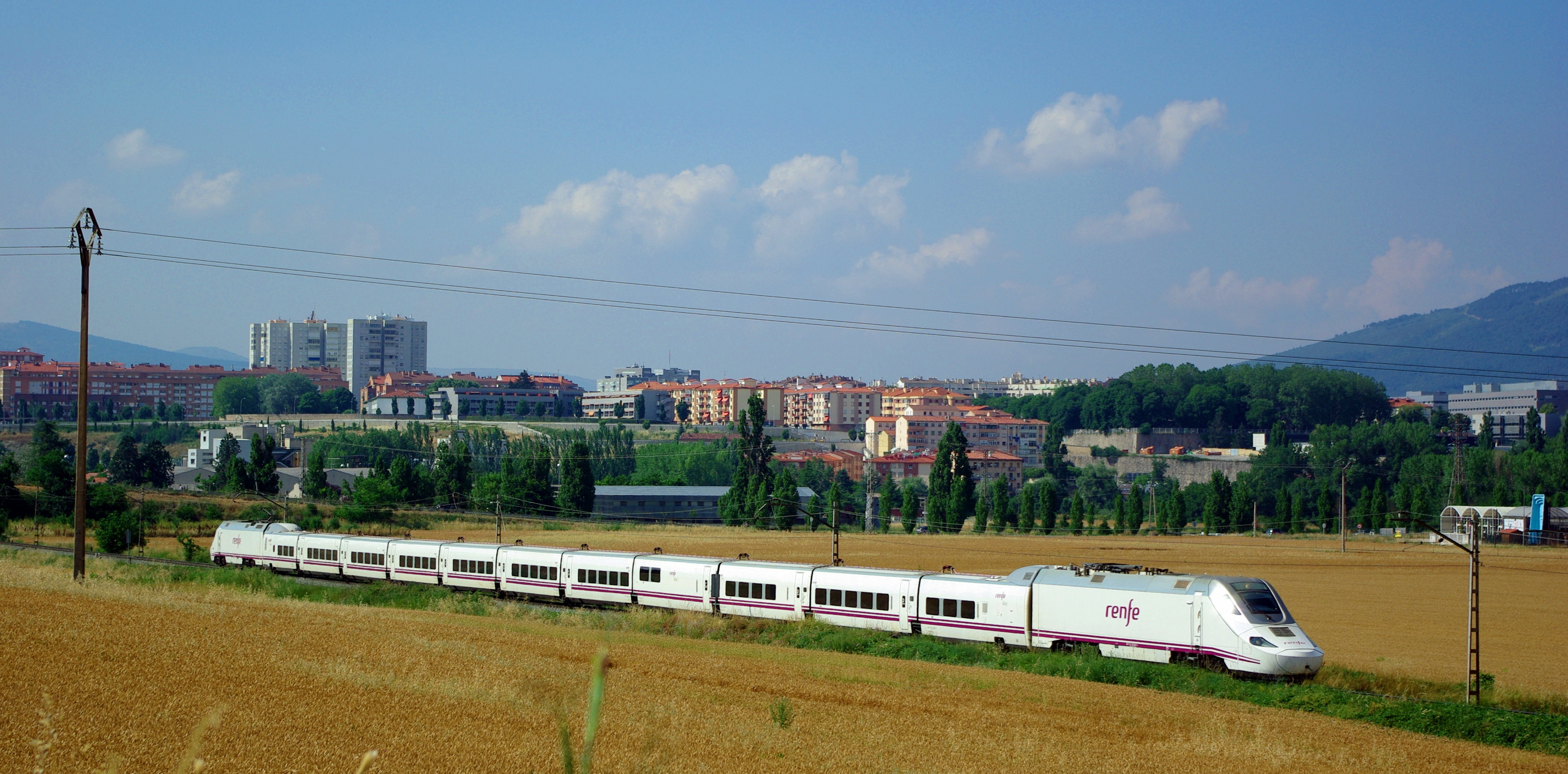 RENFE class 130